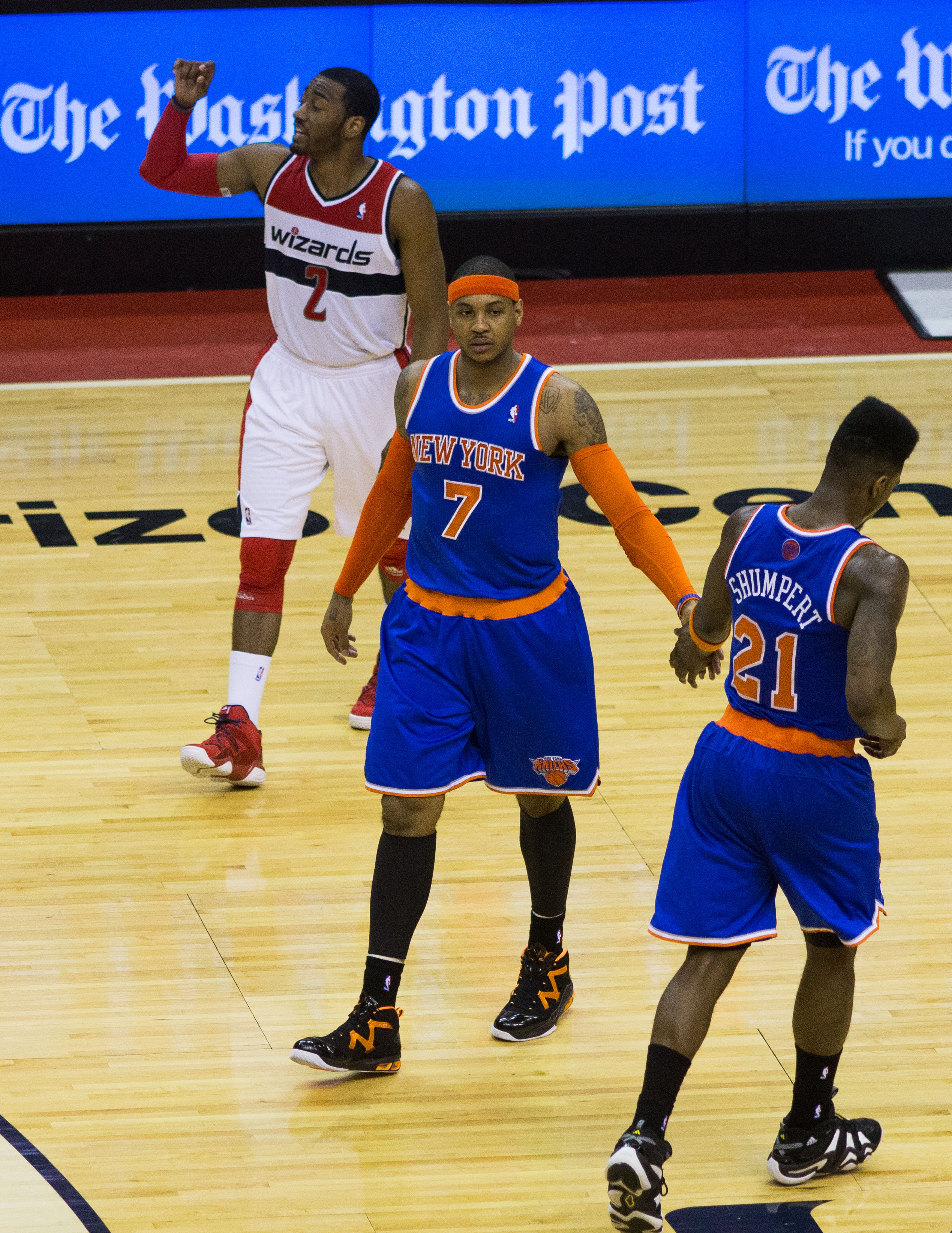 New York Knicks at Washington Wizards March 1, 2013